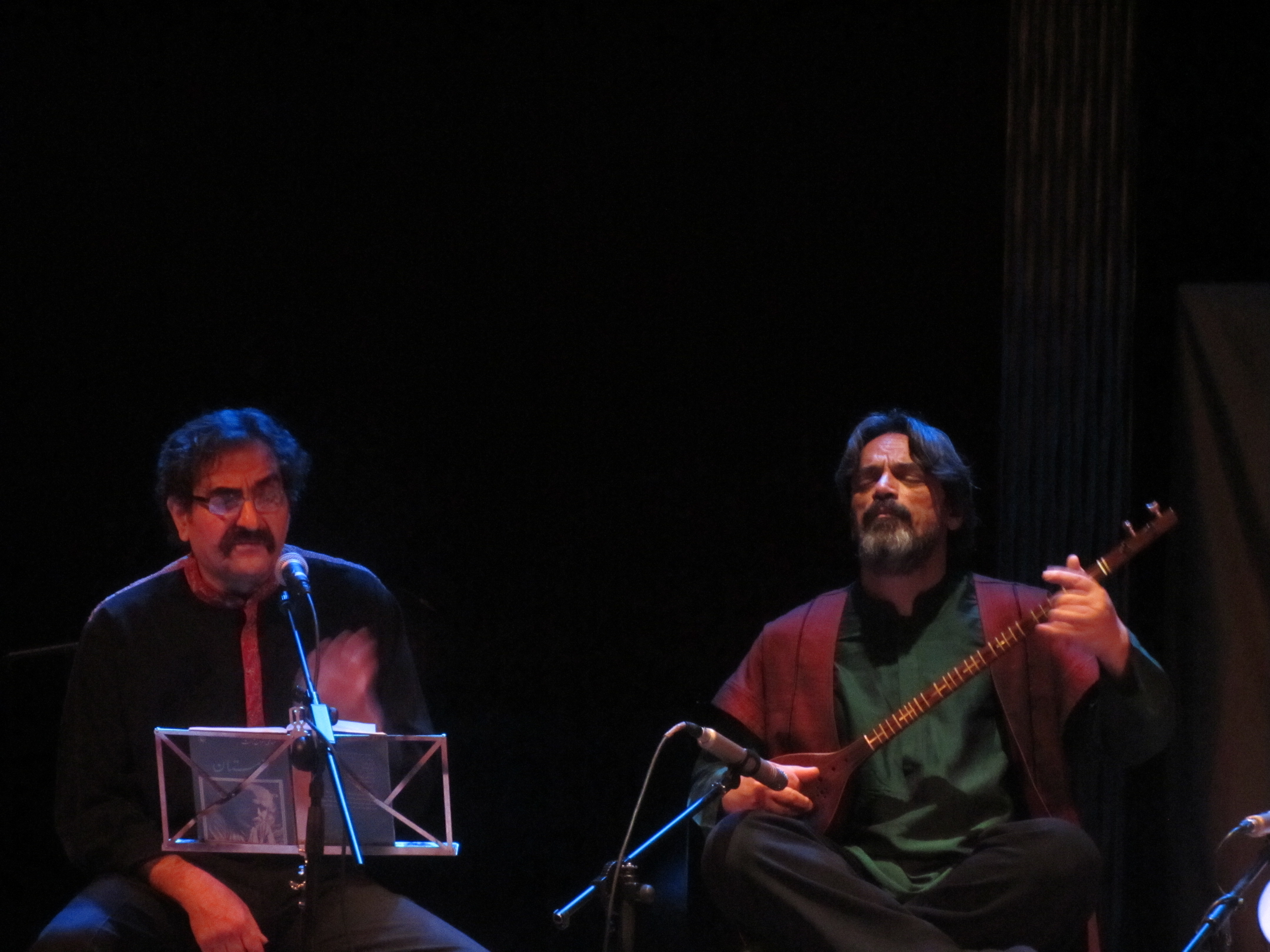 hosein alizadeh & shahram nazeri in consert madrid